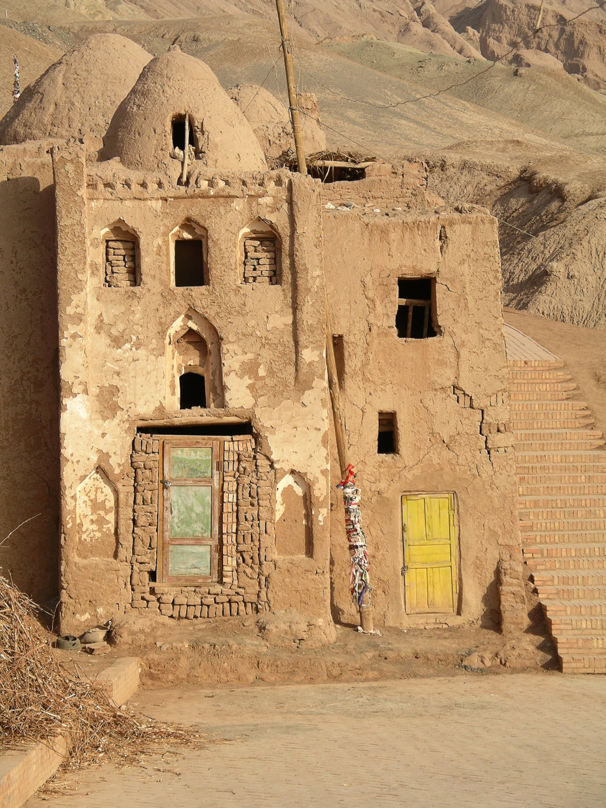 Mosque in Tuyoq (near Turpan), Xinjiang, China.